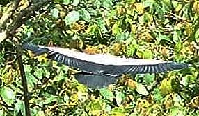 An unusual view from above of a King Vulture, Sarcoramphus papa, as it soars over a wooded ravine at Parque Nacional Baulio Carrillo, Costa Rica.